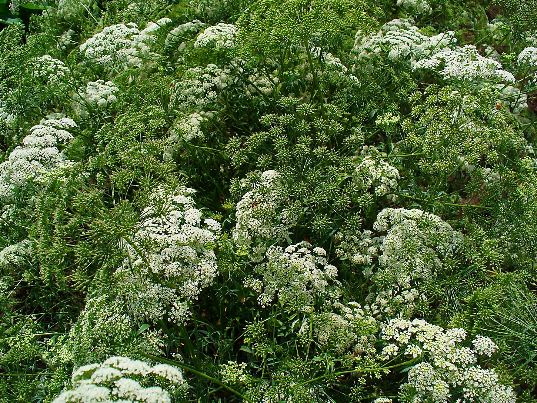 Ammi majus, Apiaceae, Bishopsweed, Bullwort, Greater Ammi, Lady’s Lace, Laceflower, habitus. The blooming plants are used in homeopathy as remedy: Ammi majus (Ammi-m.)